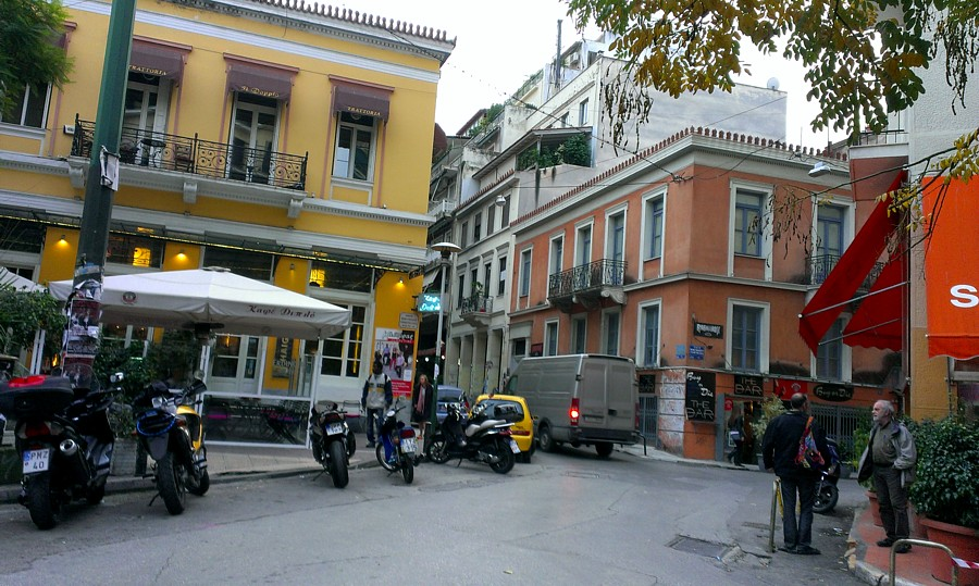 eksarxeia